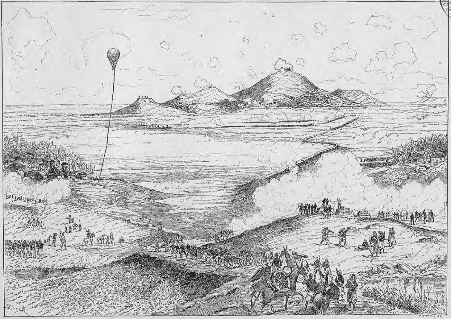 Attack of Bac Ninh heights by General Brière de l'Isle.